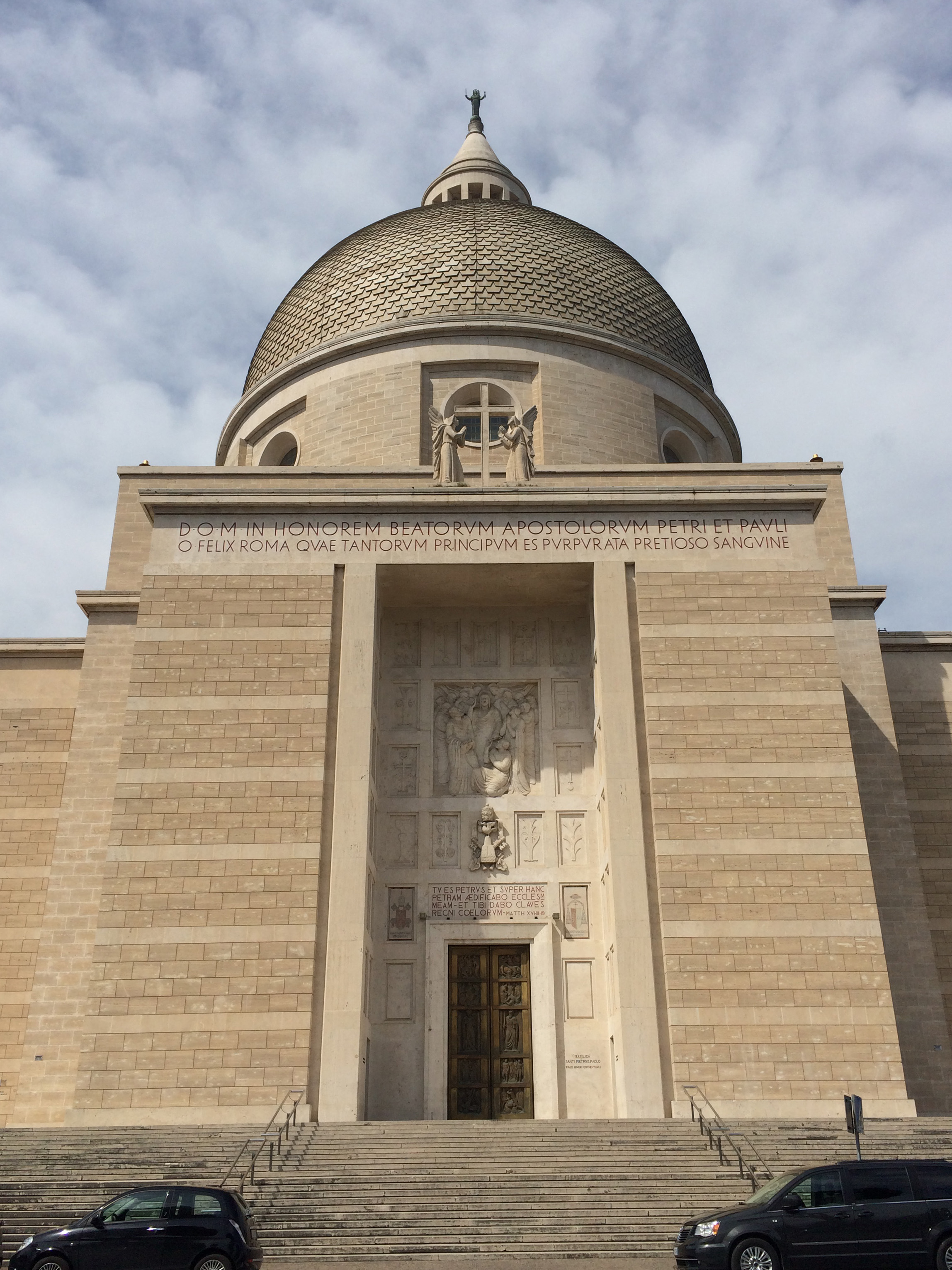 East facade of the Basilica parrocchiale dei Santi Pietro e Paolo in the EUR district of Rome.